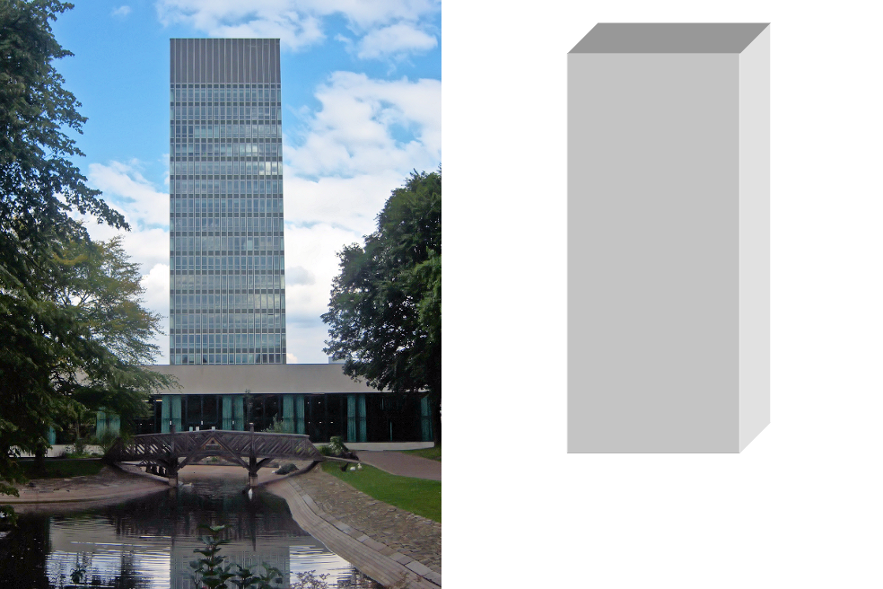 Arts Tower in Sheffield, with example of massing as cuboid. Original file allows remixing under CC-BY-SA-3.0.